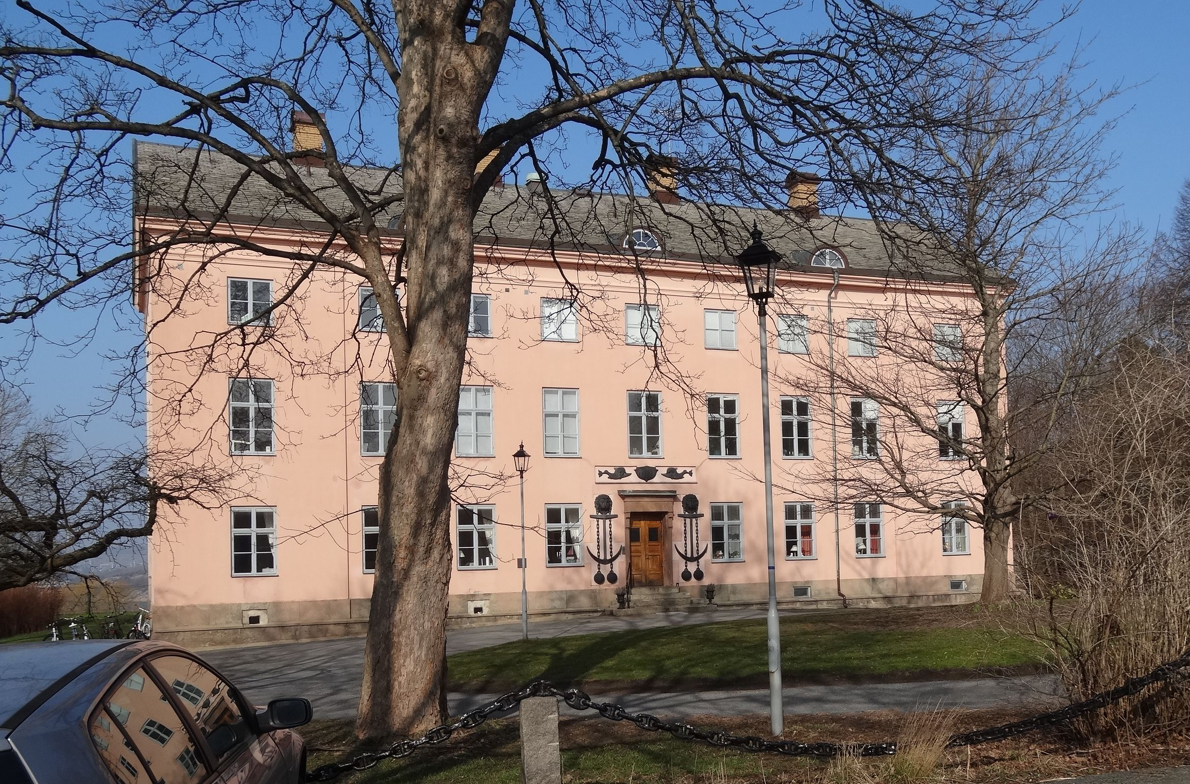 Building 7 at former naval base Nya Varvet, Gothenburg, Sweden. The "Anchorhouse" was built 1805-1813 as main office building for the navy. The house is today civilian apartments.